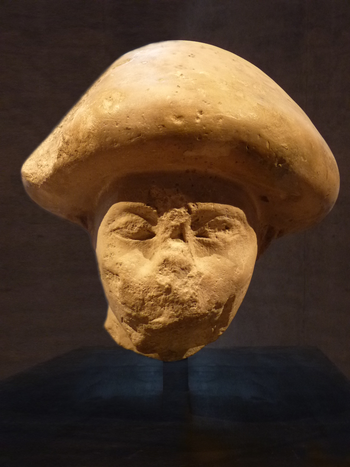 Asiatic official Munich (retouched)